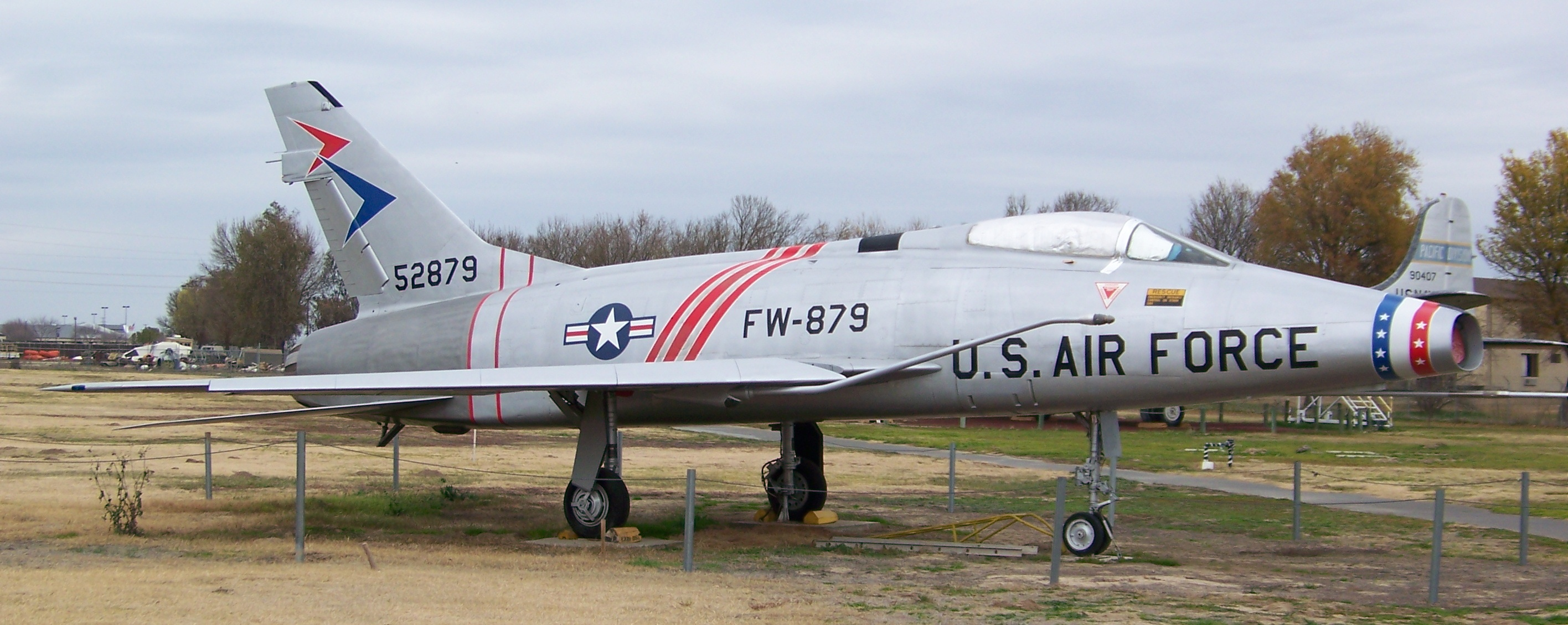 A North American F-100D-50-NH Super Sabre (s/n 55-2879) on display at the Castle Air Museum in Atwater, California (USA).